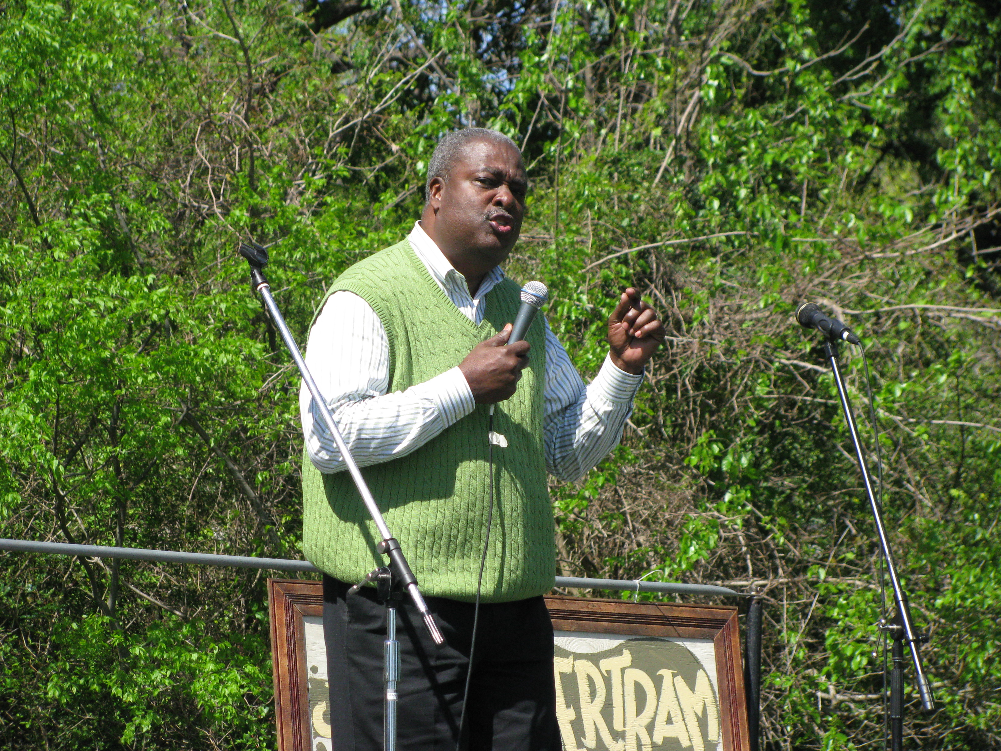 Harvey Johnson, Jr., mayor of Jackson, Mississippi speaking at a campaign rally at Belhaven Heights Park, Jackson, Mississippi.